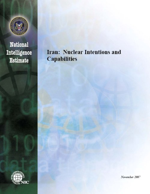 The cover of the 2007 National Intelligence Estimate on Iran.